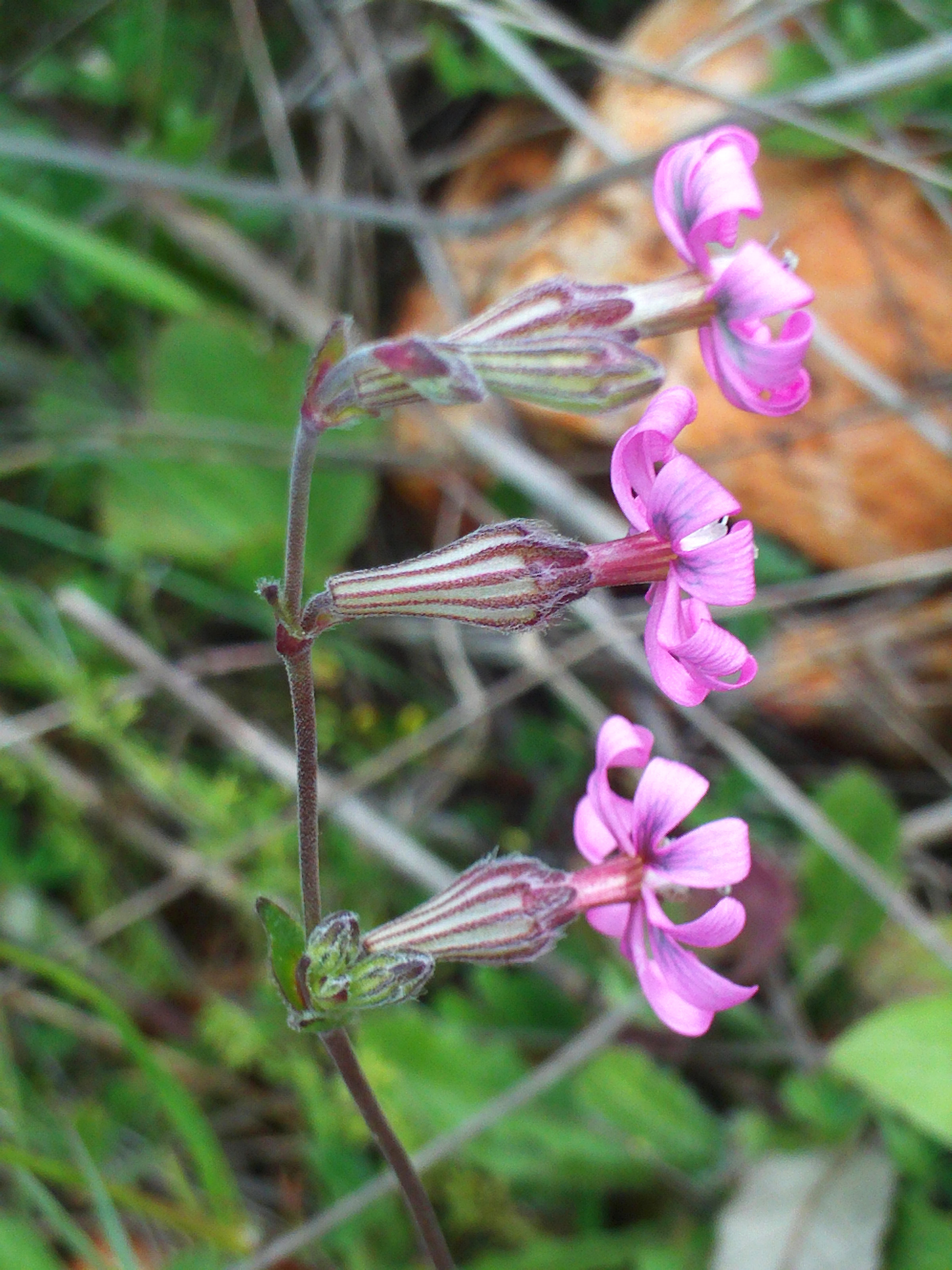 Silene colorata Flowers side close up, Dehesa Boyal de Puertollano, Spain